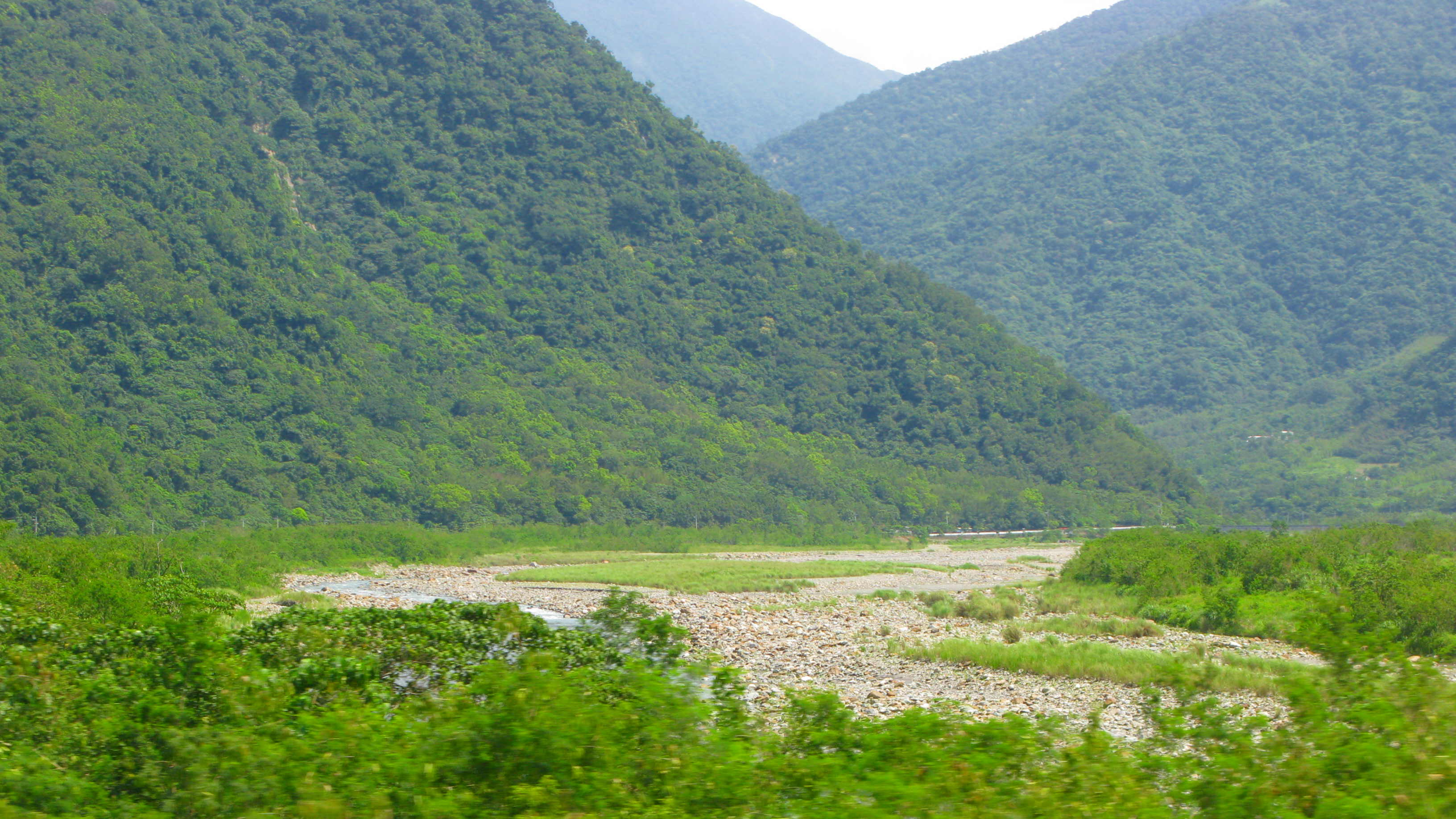 Nan-ao runlet，Taiwan.